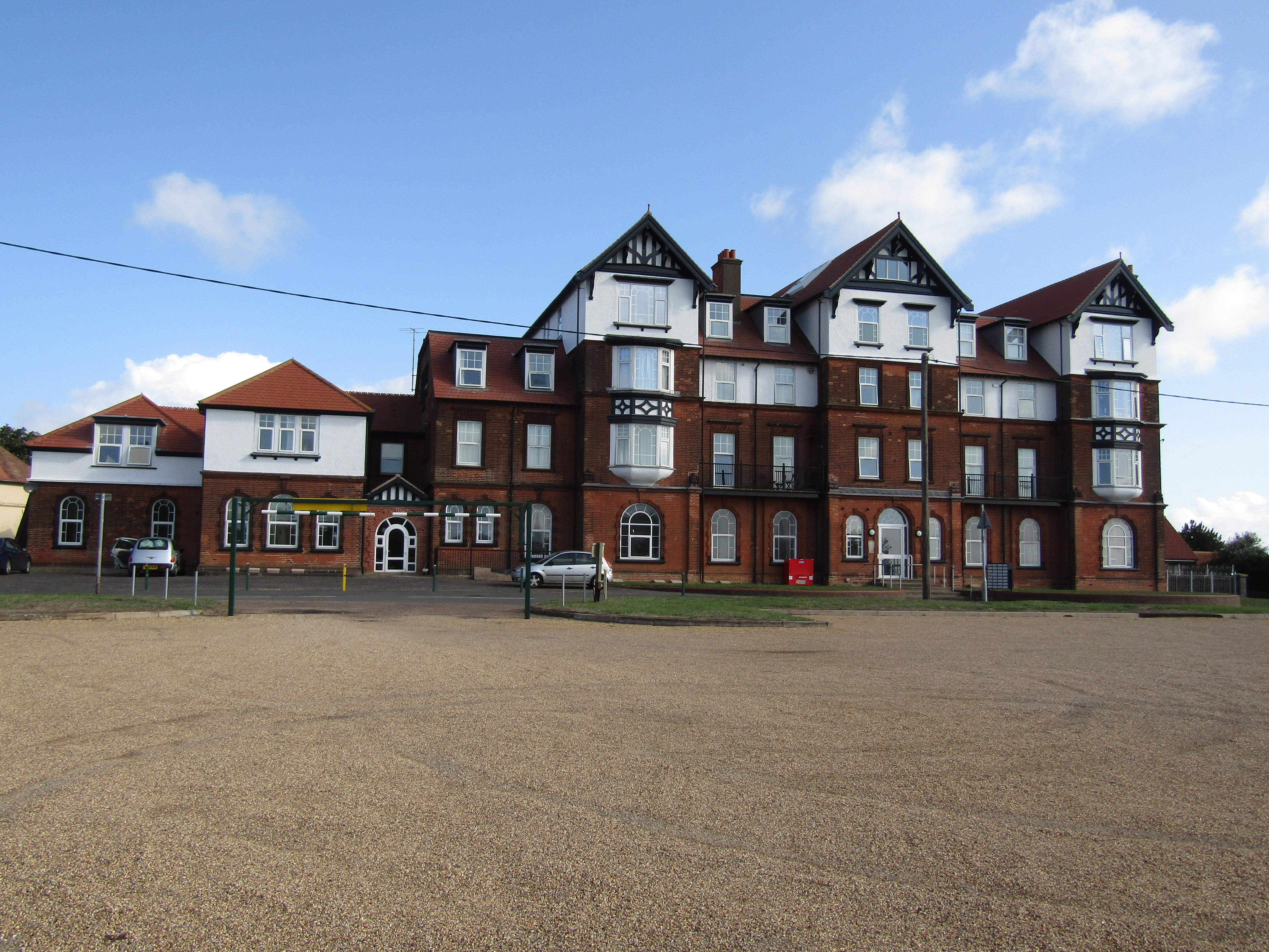 The former Grand Hotel which is located on the B1159 Cromer Road in the village of Mundesley, Norfolk, United Kingdom. The building is now Grand Norfolk Holiday Apartments.